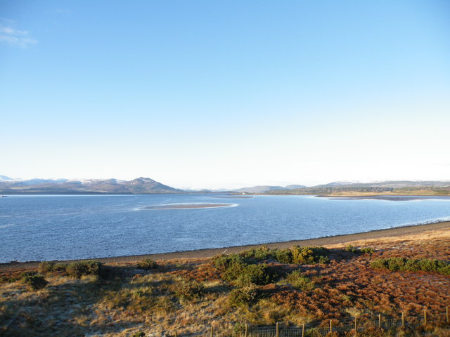 Looking West from Dornoch Firth Bridge Causeway